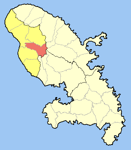 Location of Fonds-Saint-Denis within Martinique